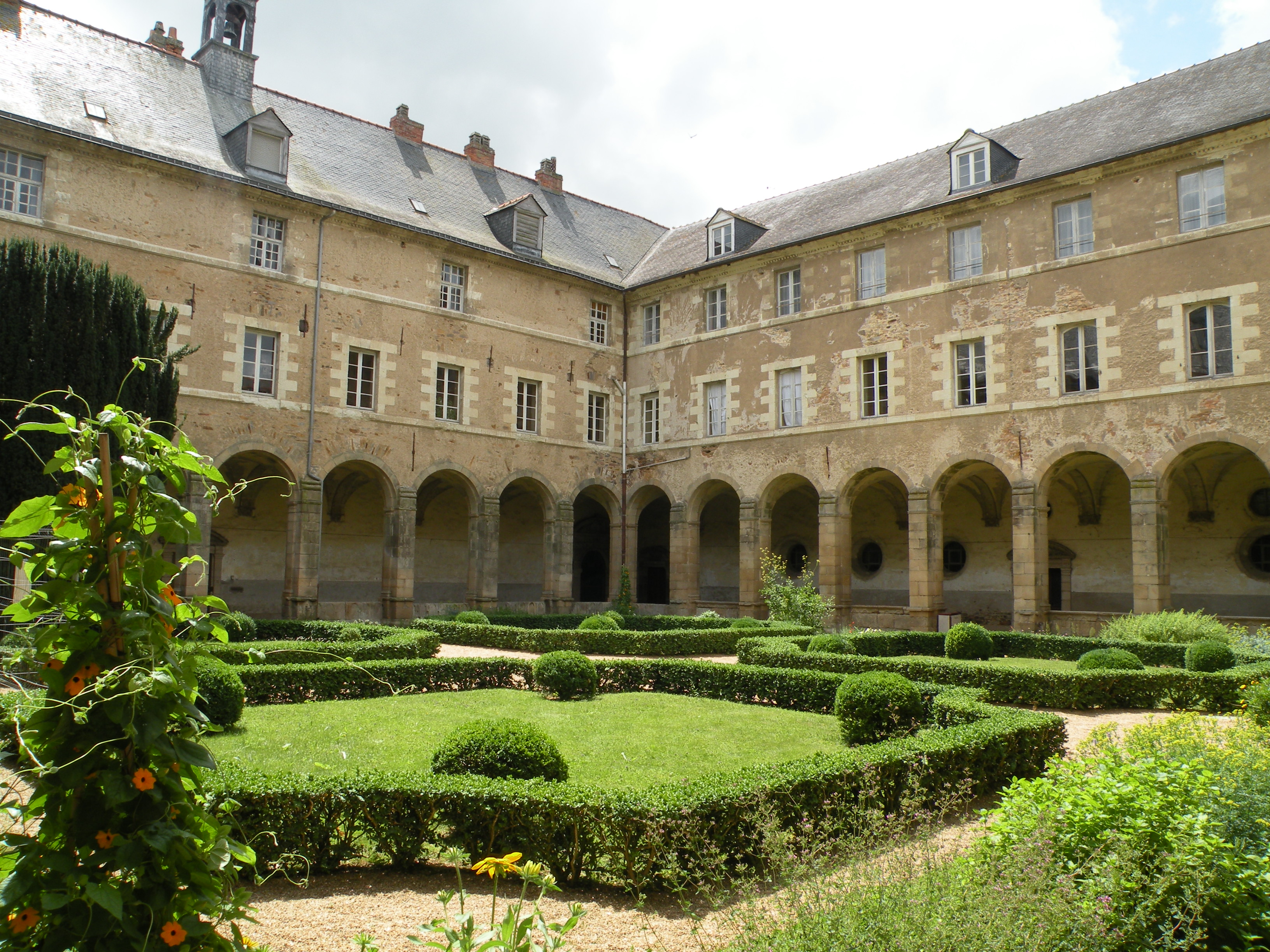 Cloister of Saint-Sauveur abbey in Redon